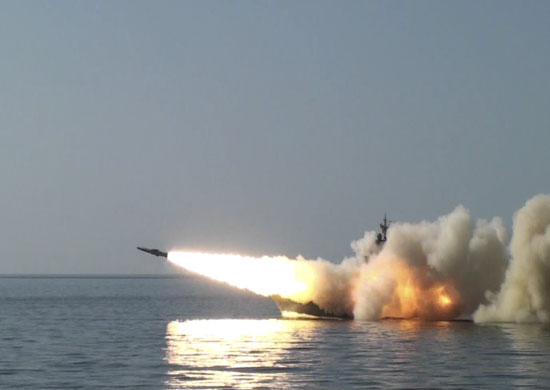 In the waters of the Sea of Japan during the tactical exercises of the Pacific Fleet groupings, ships of the Primorye flotilla of heterogeneous forces attacked a surface target imitating a mock enemy ship with the Moskit cruise missiles. The launch of two cruise missiles with an interval of several seconds was made by the destroyer Bystry and the missile boat R-24. Both missiles at the estimated time hit the target - a large ship's shield, at a distance of more than 60 kilometers. Together with the ships, practical training tasks were practiced by two MiG-31 high-altitude fighter jets and an A-50 long-range radar detection and control aircraft.